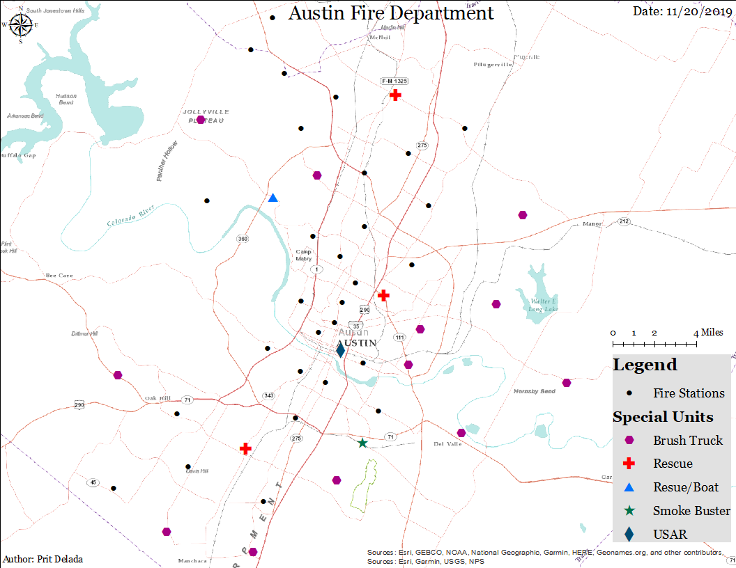 Visualizes the fire station locations of the Austin Fire Department as well as showing special units within the AFD.